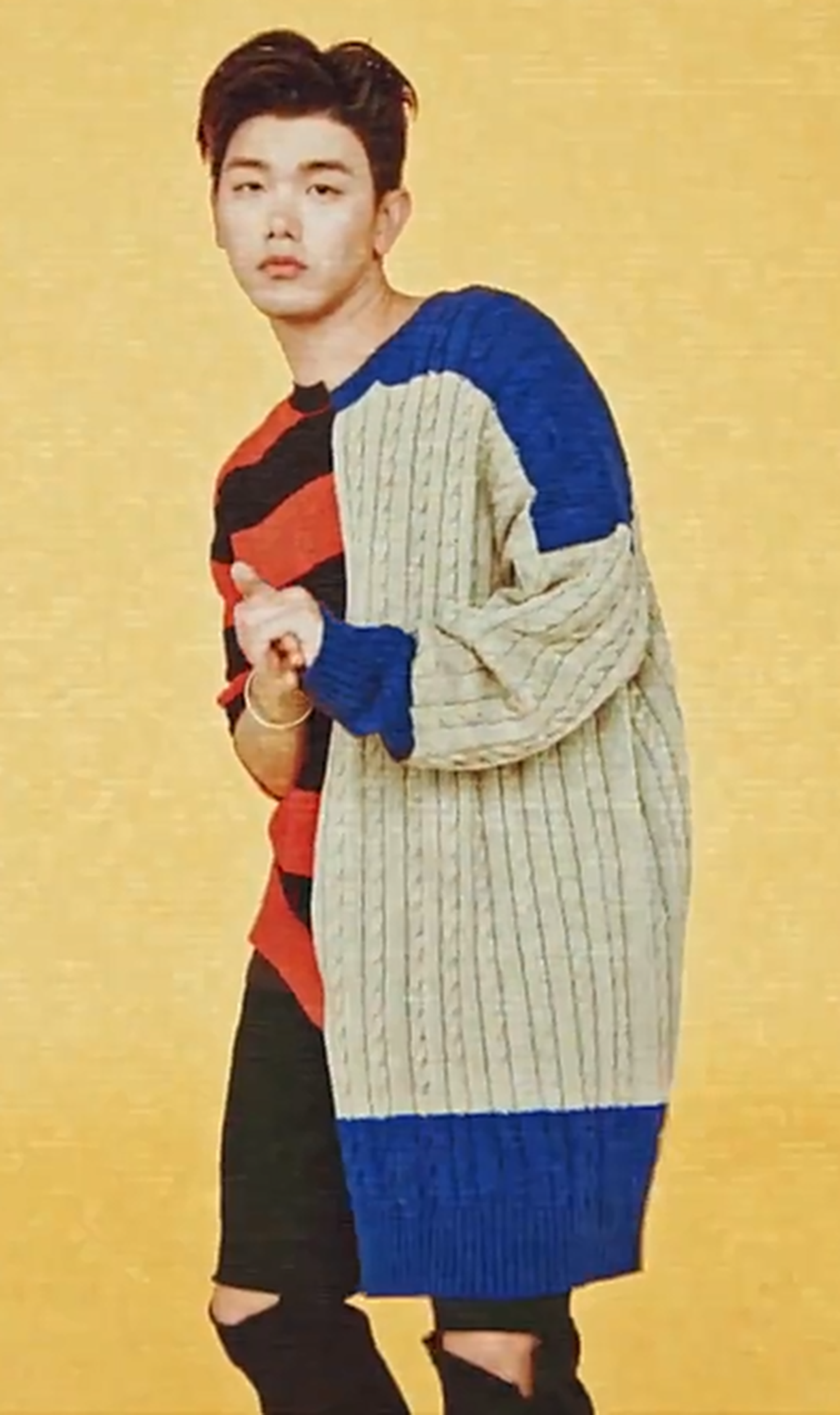 Eric Nam for Marie Claire Korea Magazine March Issue 2017